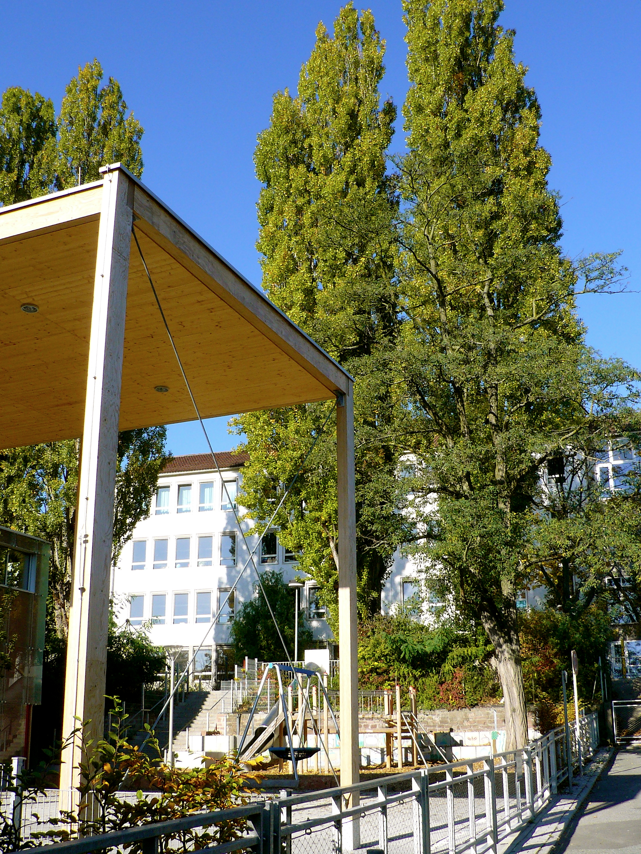 View from gym to main building of Zentgrafenschule in Frankfurt-Seckbach, Hesse, Germany